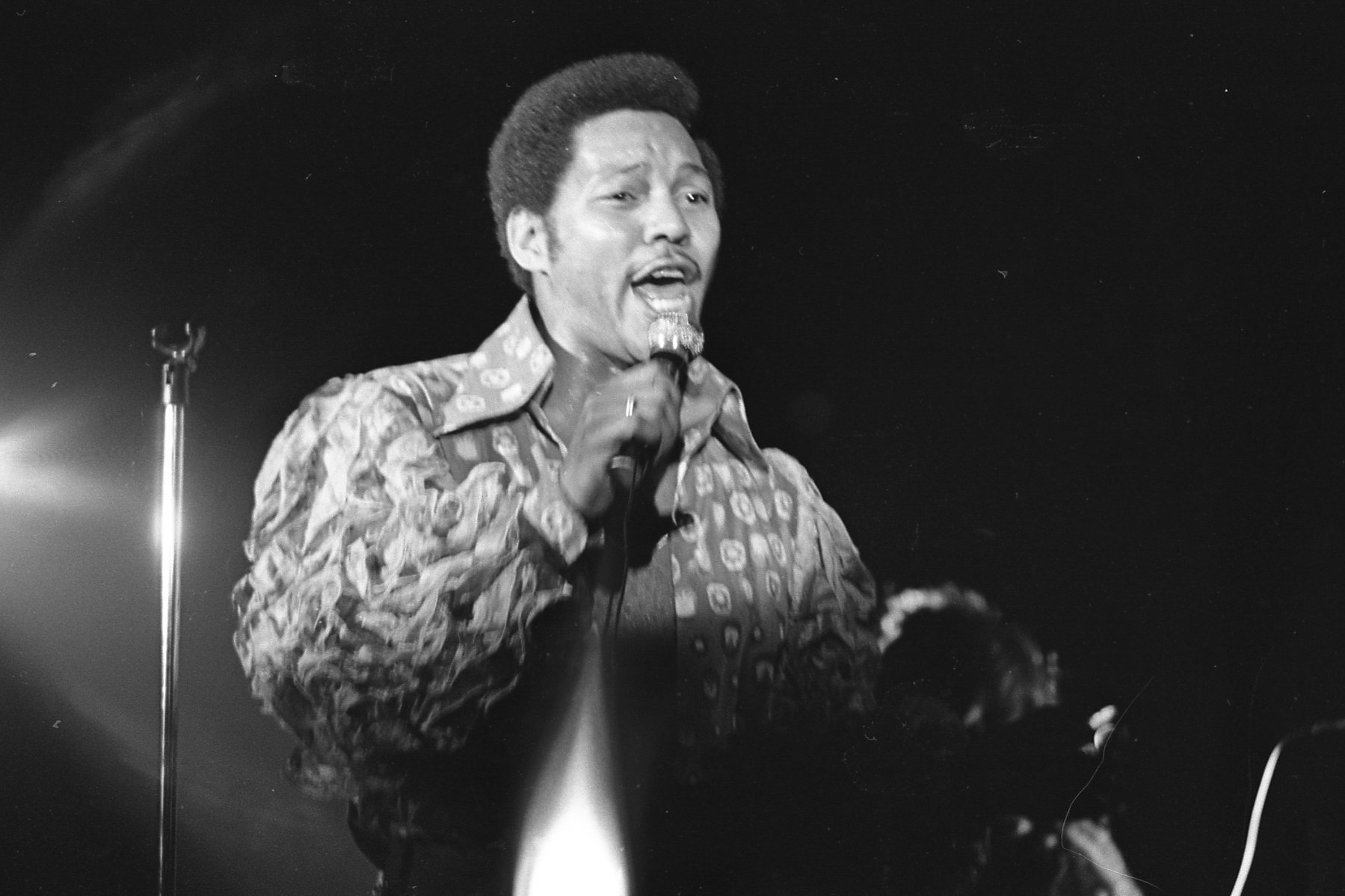 Billy Davis Jr. of The 5th Dimension performing at Eastern Michigan University.